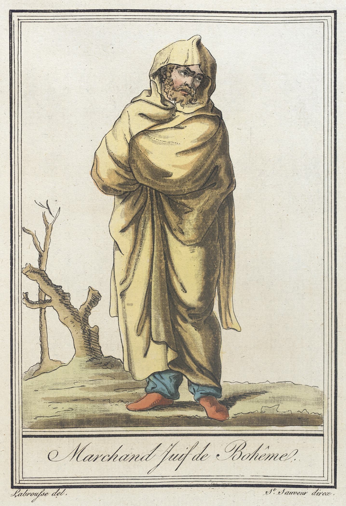 France, circa 1797 Prints; engravings Hand-tinted engraving on paper Sheet: 10 1/2 x 7 7/8 in. (26.67 x 20.01 cm); Composition: 7 3/4 x 5 1/2 in. (19.69 x 13.97 cm) Costume Council Fund (M.83.190.135) Costume and Textiles